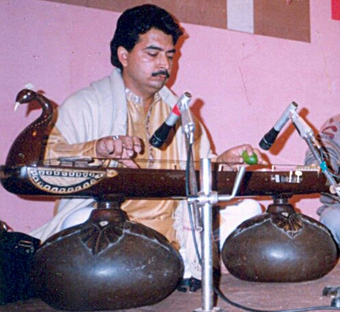 Anurag Singh is Famous Vichitra Veena Player.